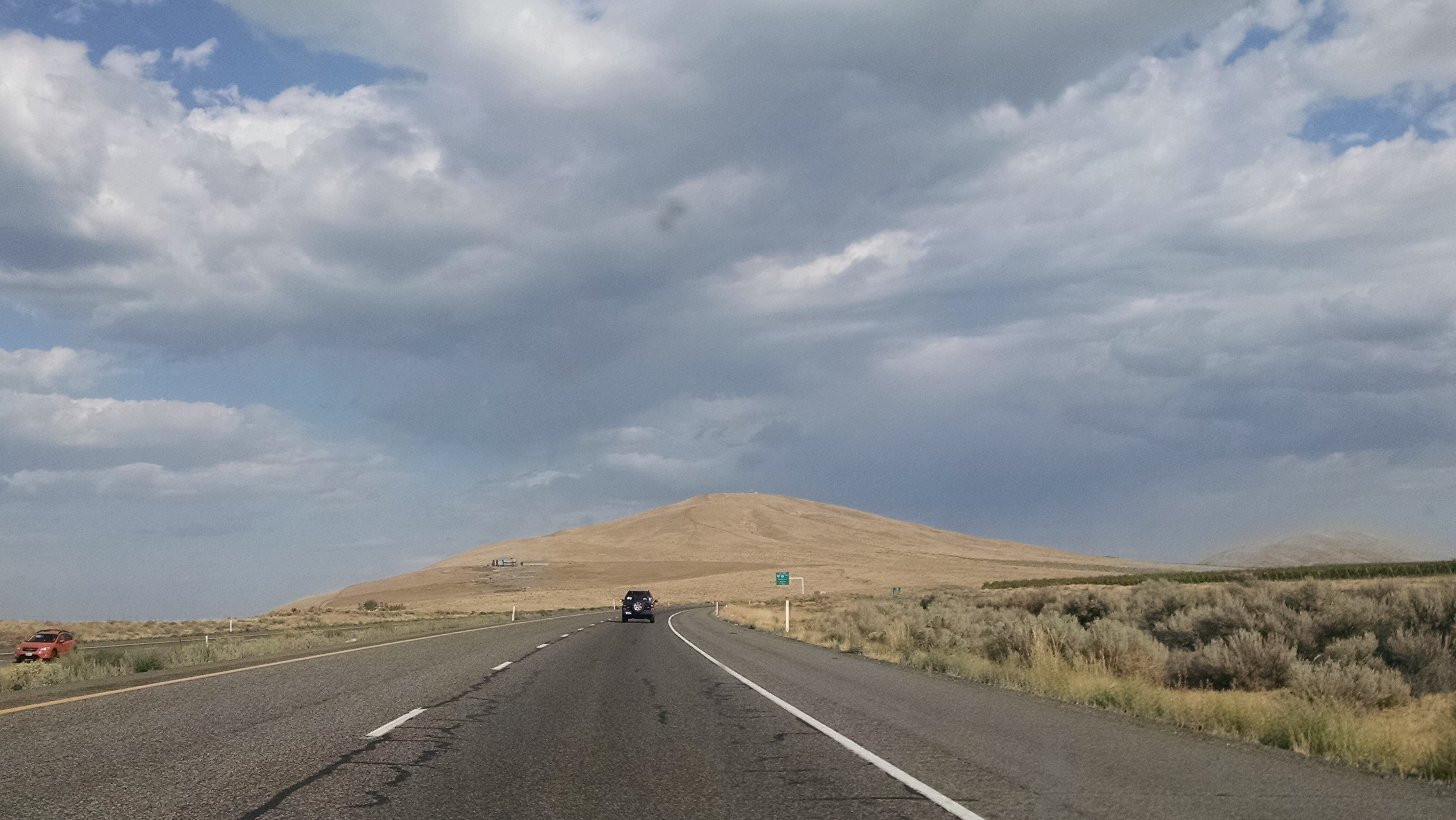 Candy Mountain from Interstate 82 east of Benton City, Washington.